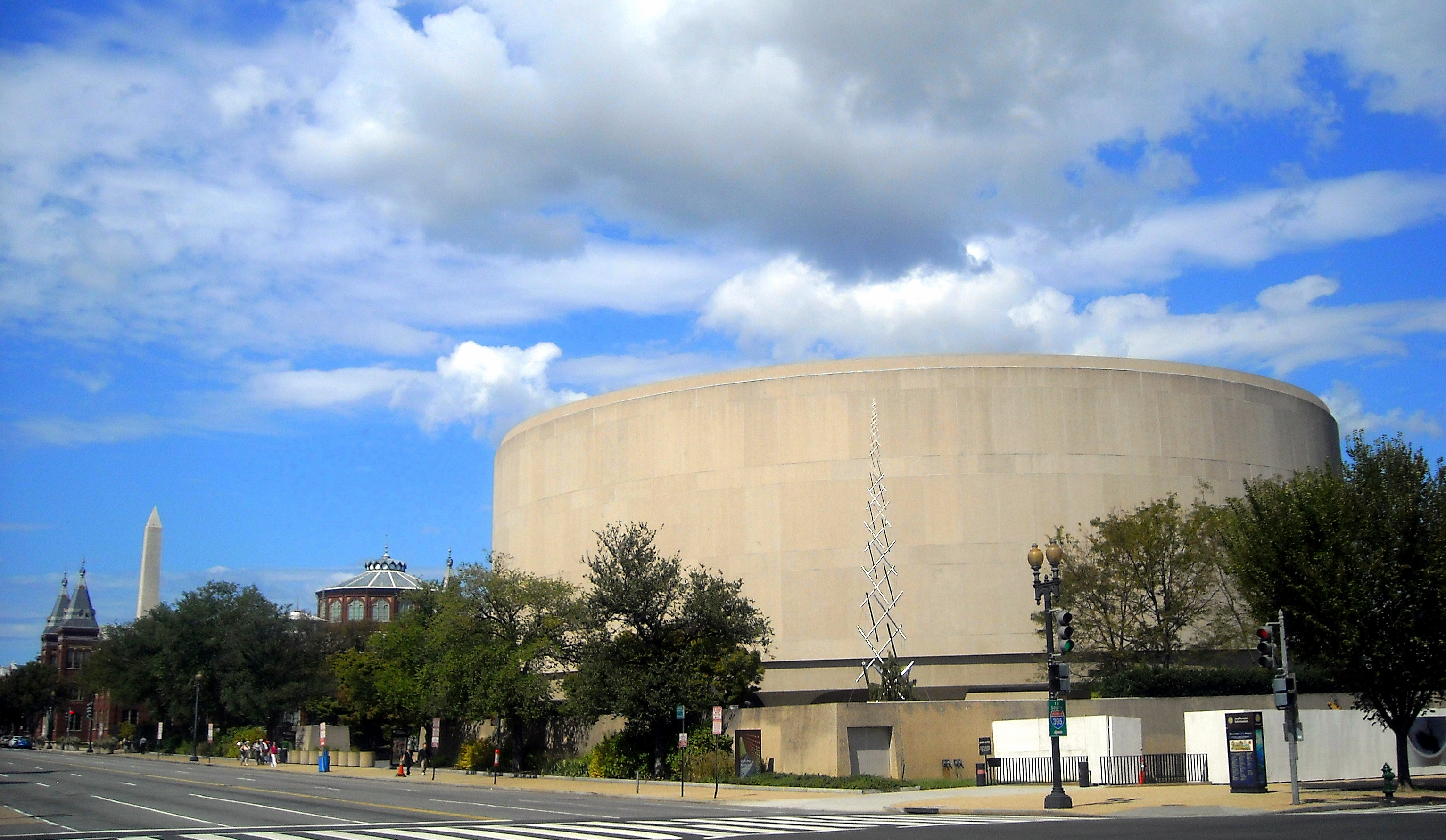 Facing west on Independence Avenue in Washington, D.C. The Hirshhorn Museum is visible in the foreground.